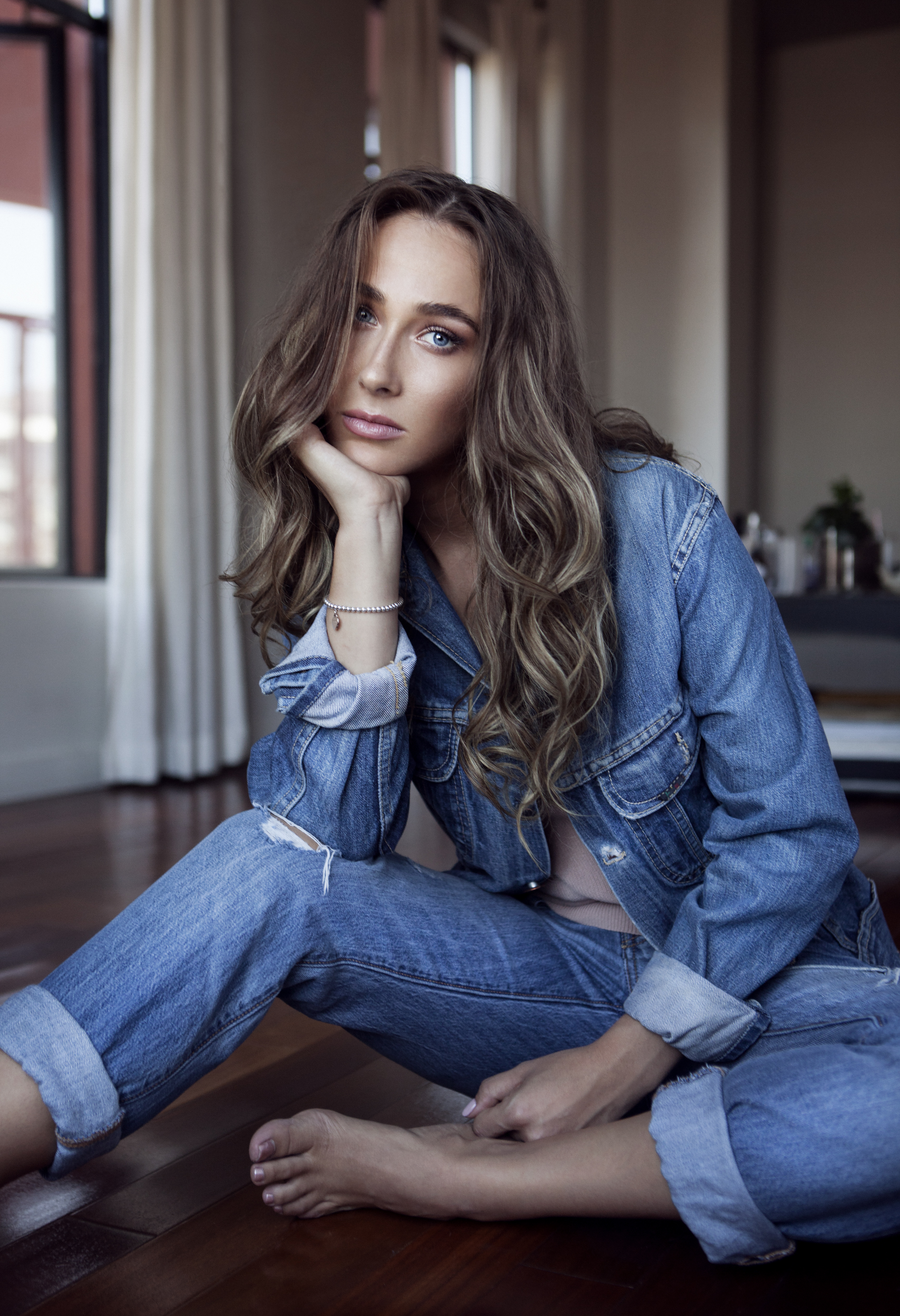 Cover photo for the single, Liar